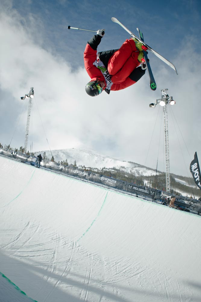 Kevin ROLLAND riding in a Superpipe